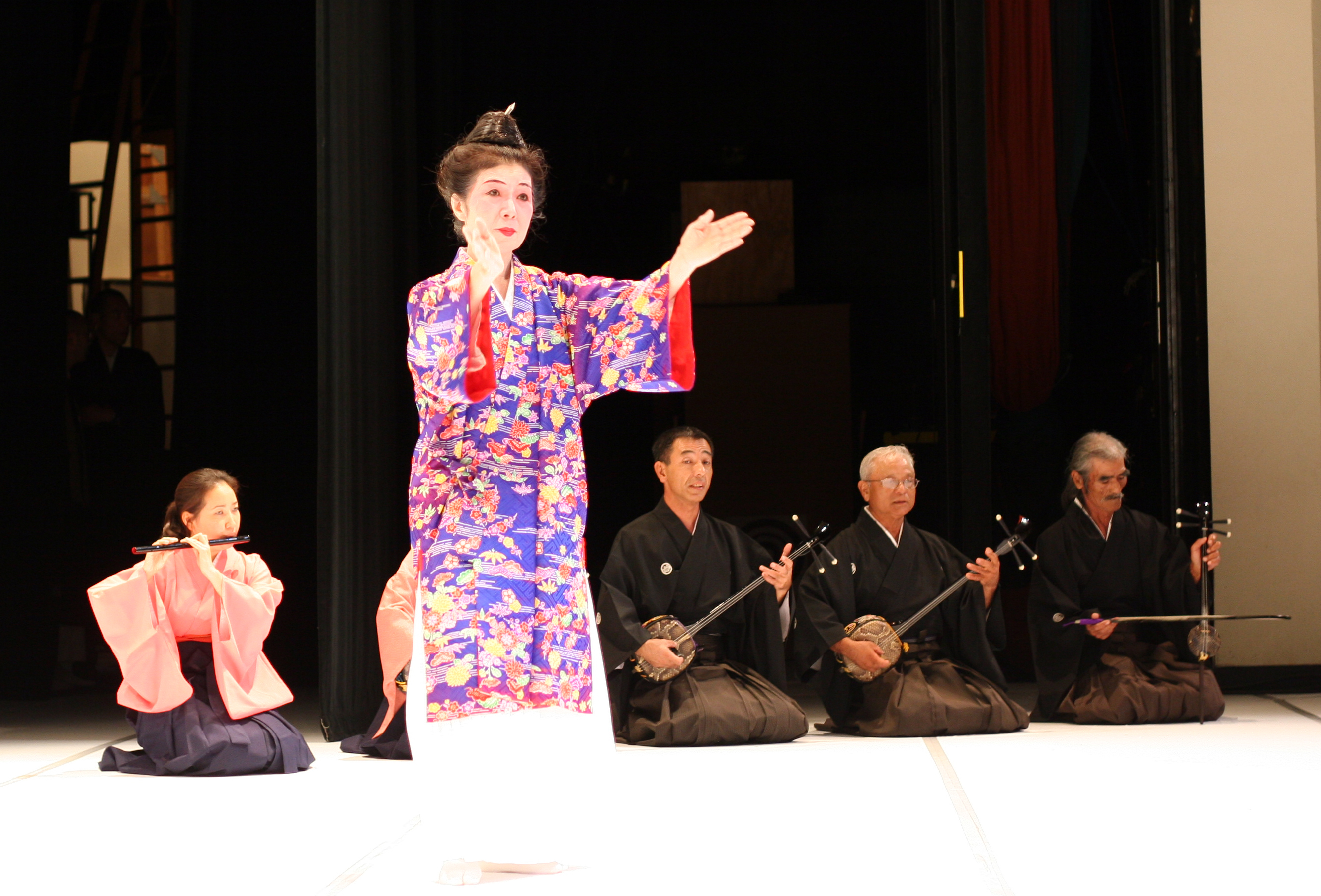 Shot during the final rehearsal for Mare Serenitatis at the Aratani Theatre at the Japanese American Cultural & Community Center.